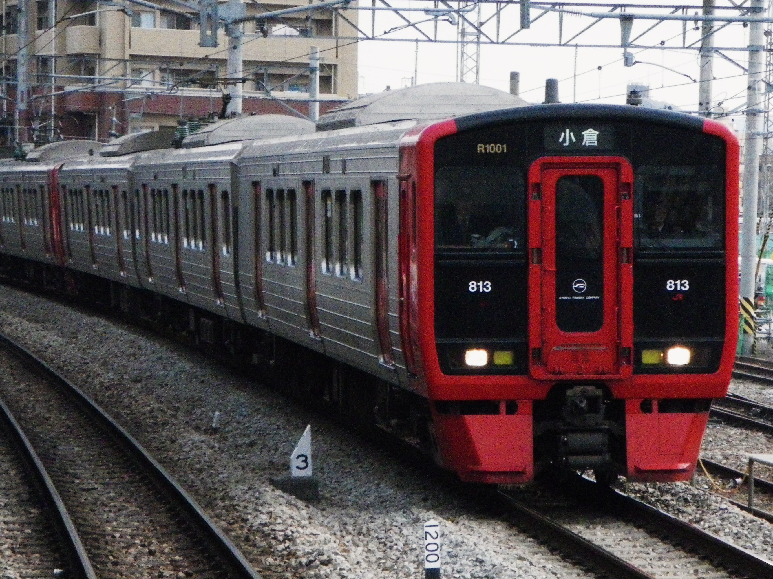 Series813-1000 Kyushyu railway comapany Kagoshima-line(Takeshita Sta.)Takeshita Fukuoka city Japan